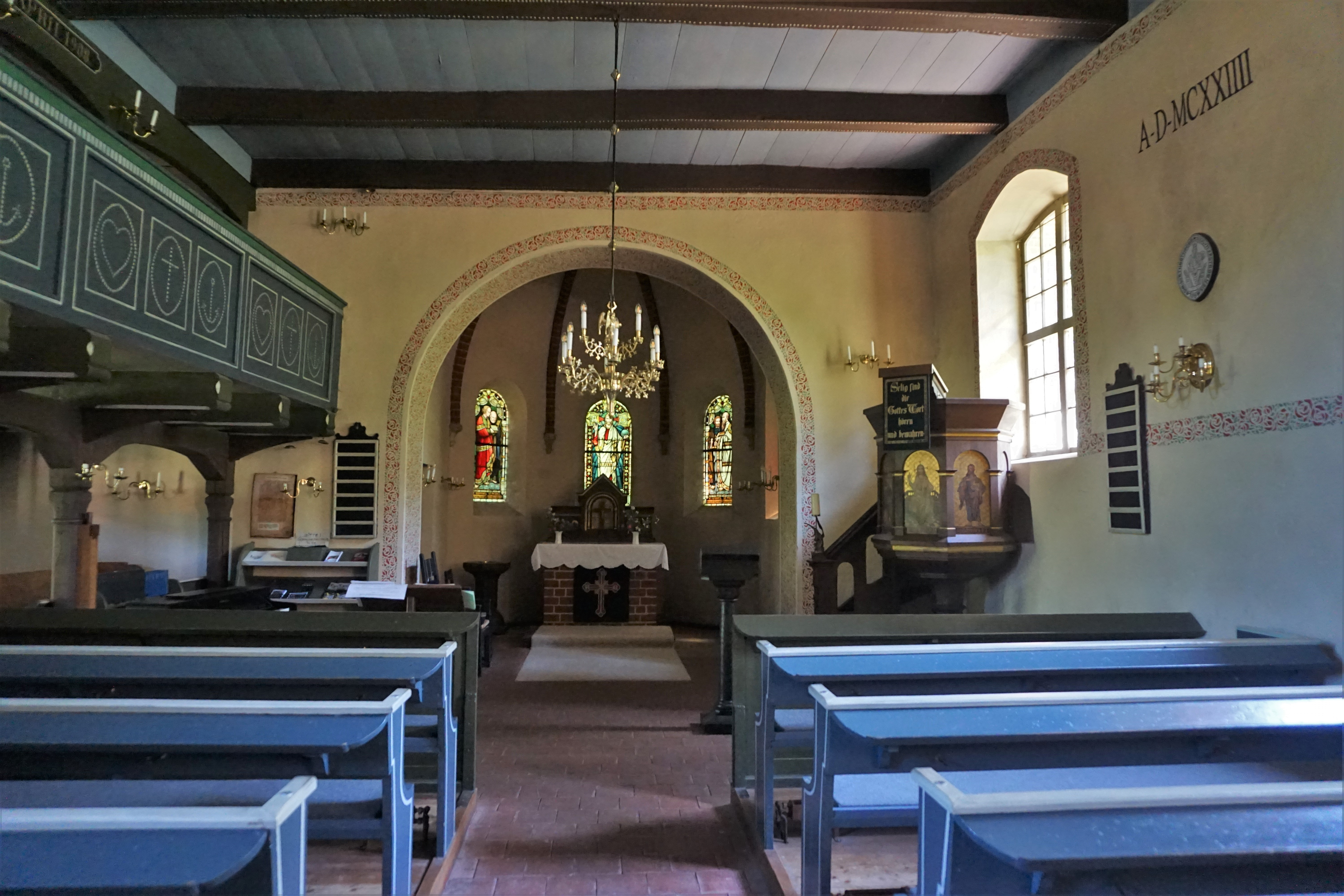 Interior of the Peter and Paul Church in Thomasburg, Lüneburg district.